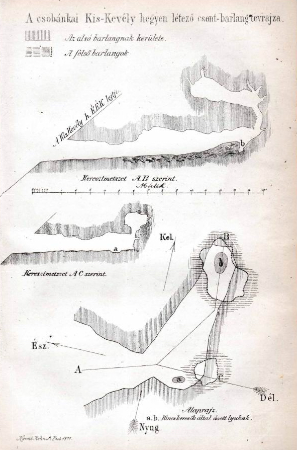 Maps of Kis-kevélyi Cave by Antal Koch.